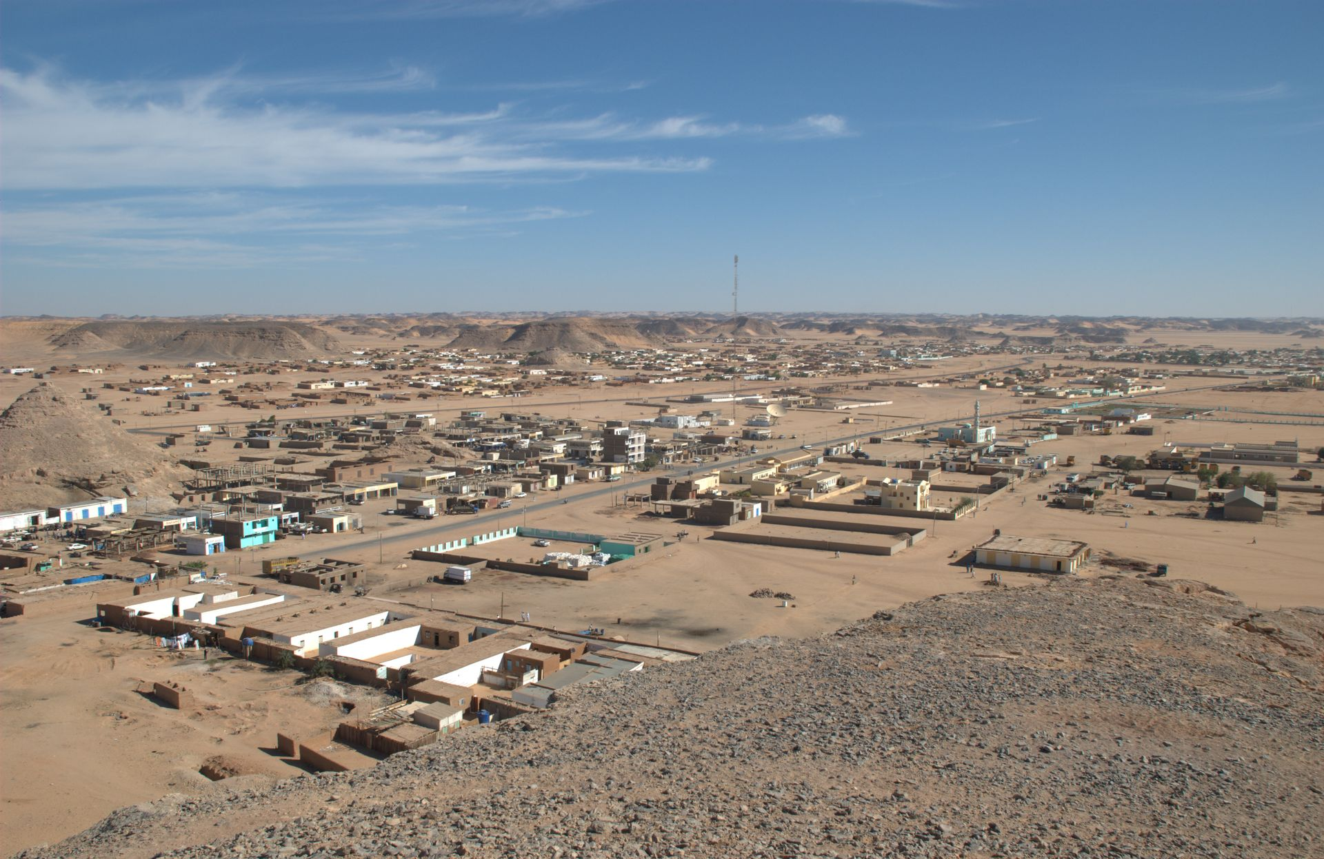 Center of Wadi Halfa, Sudan, from hilltop